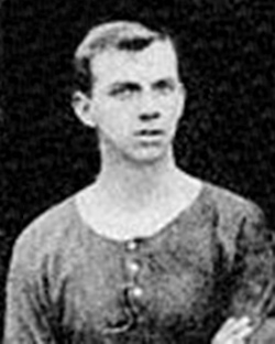 Alf Gilson at Bristol City 1904/05